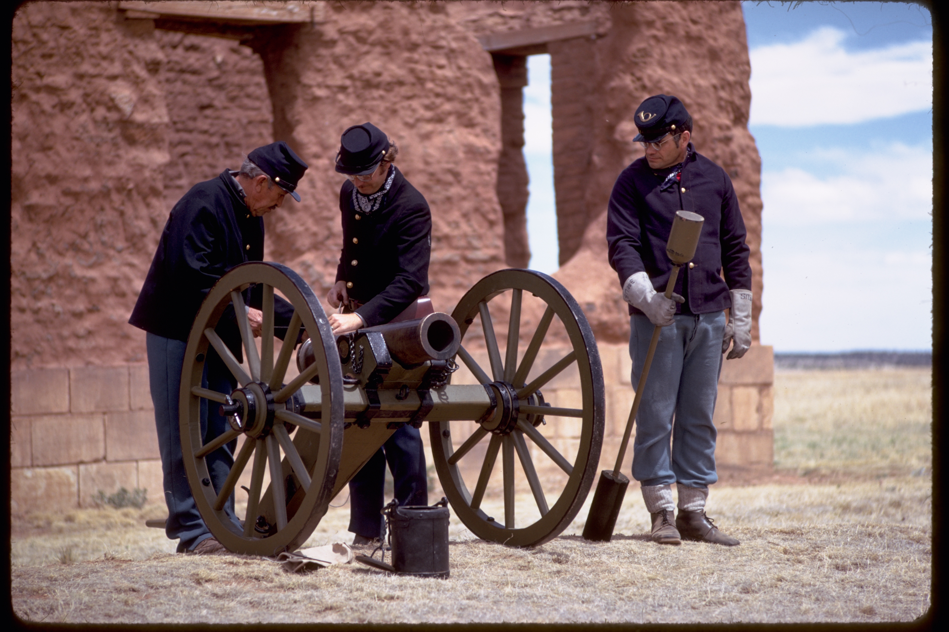 Location Fort Union National Monument Description Fort Union was established in 1851 as the guardian of the Santa Fe Trail. During its forty-year history, three different forts were constructed close together. The third Fort Union was the largest in the American Southwest, and functioned as a military garrison, territorial arsenal, and military supply depot for the southwest. The largest visible network of Santa Fe Trail ruts can be seen here.